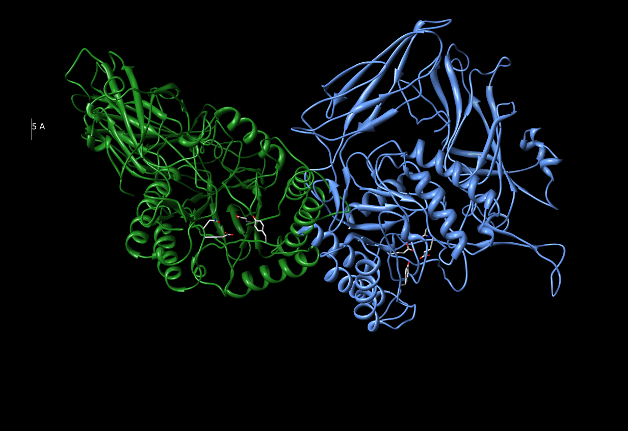 β-glucuronidase asymmetric unit showing active site residues Glu451, Tyr504, and Glu540, along with the potentially supporting Asn450 residue. Structure derived from PDB file 1BHG.